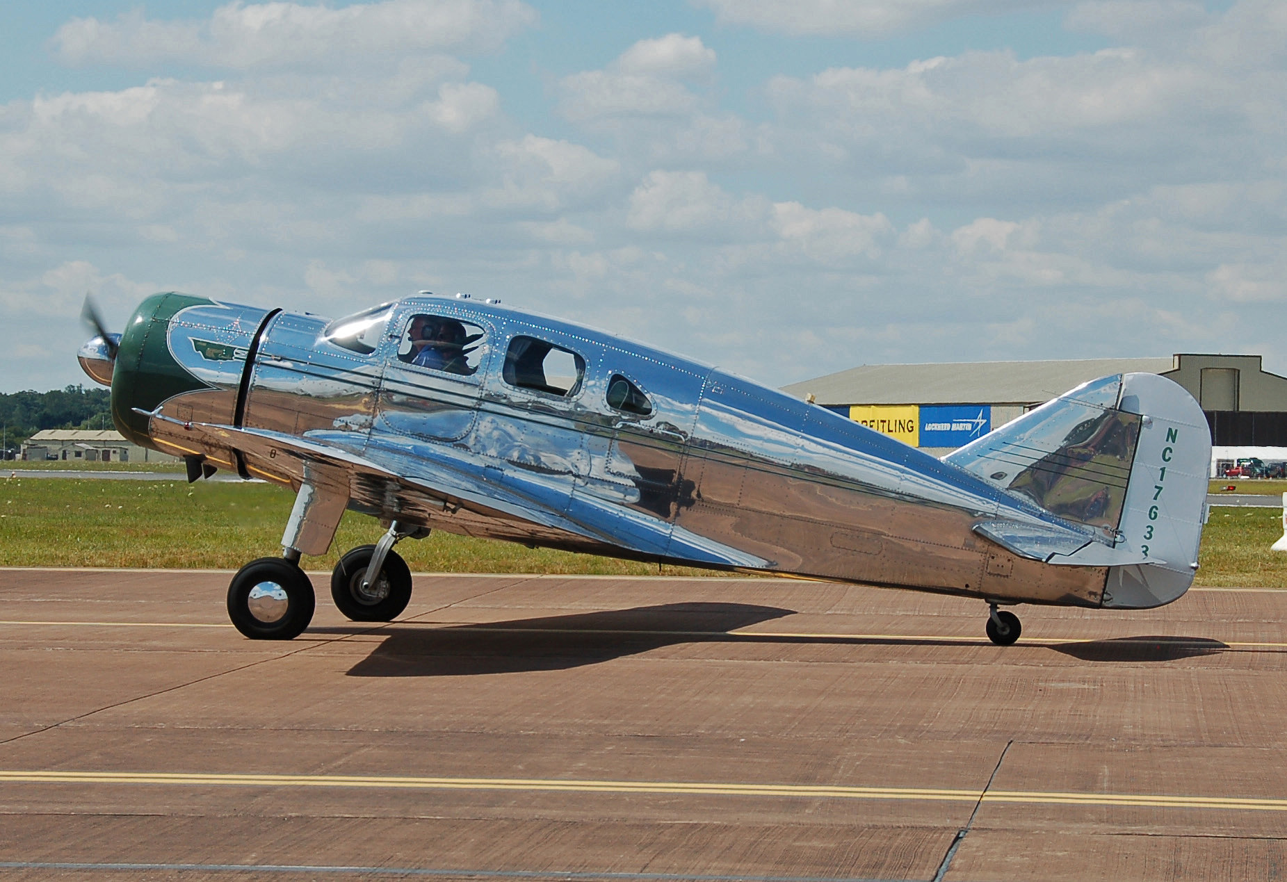 A Spartan Executive 7 arriving for the 2014 Royal International Air Tattoo, Fairford, England. The Spartan Aircraft Company of Tulsa, Oklahoma, USA, built 34 of these. It was a luxury executive transport, with an interior seating four to five. Nigel Pickard keeps two of them at Little Gransden in Cambridgeshire, and it is one of these that is shown here.